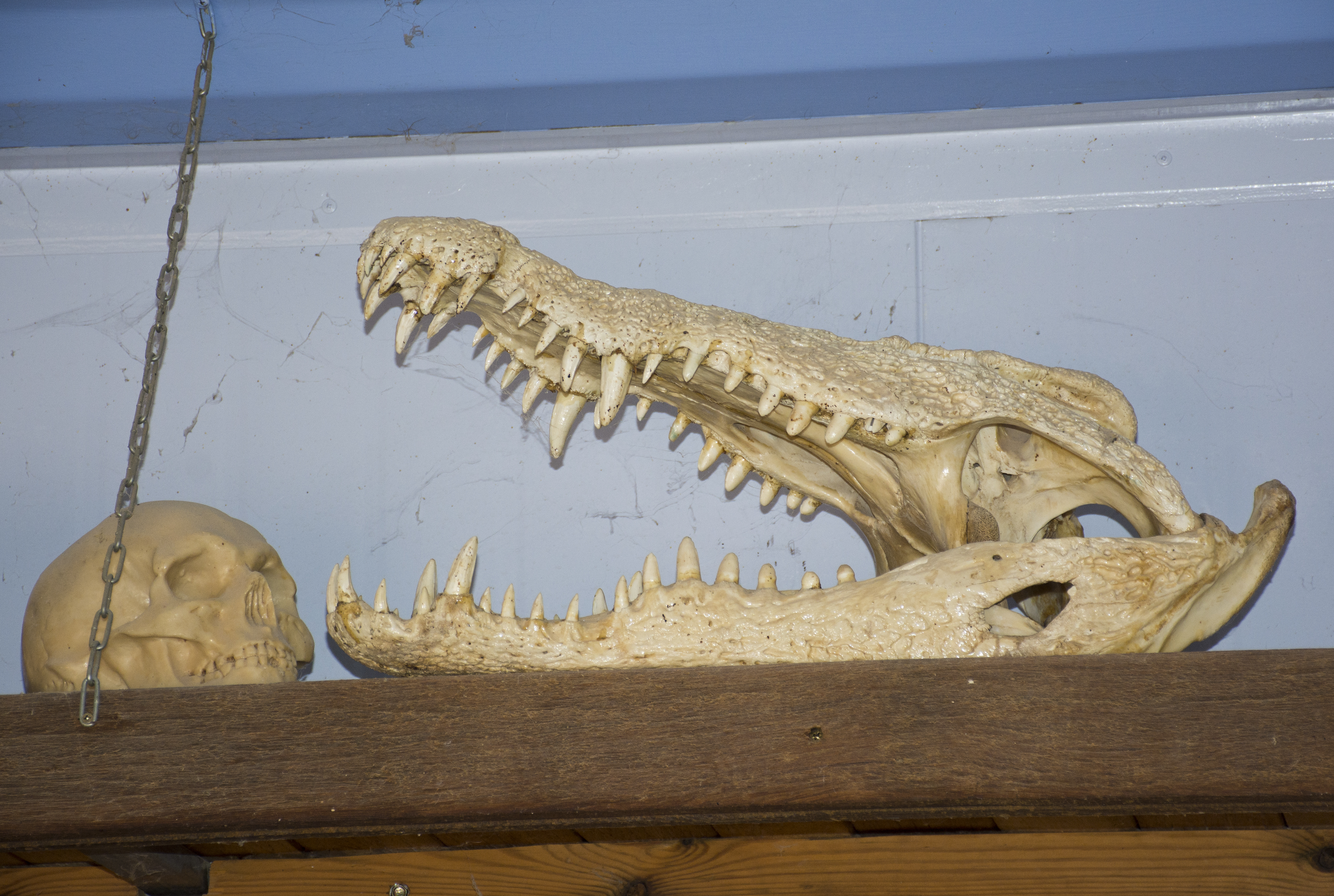 Skull of a Nile Crocodile (Crocodylus niloticus), Crocoloco Farm, HaArava, Israel